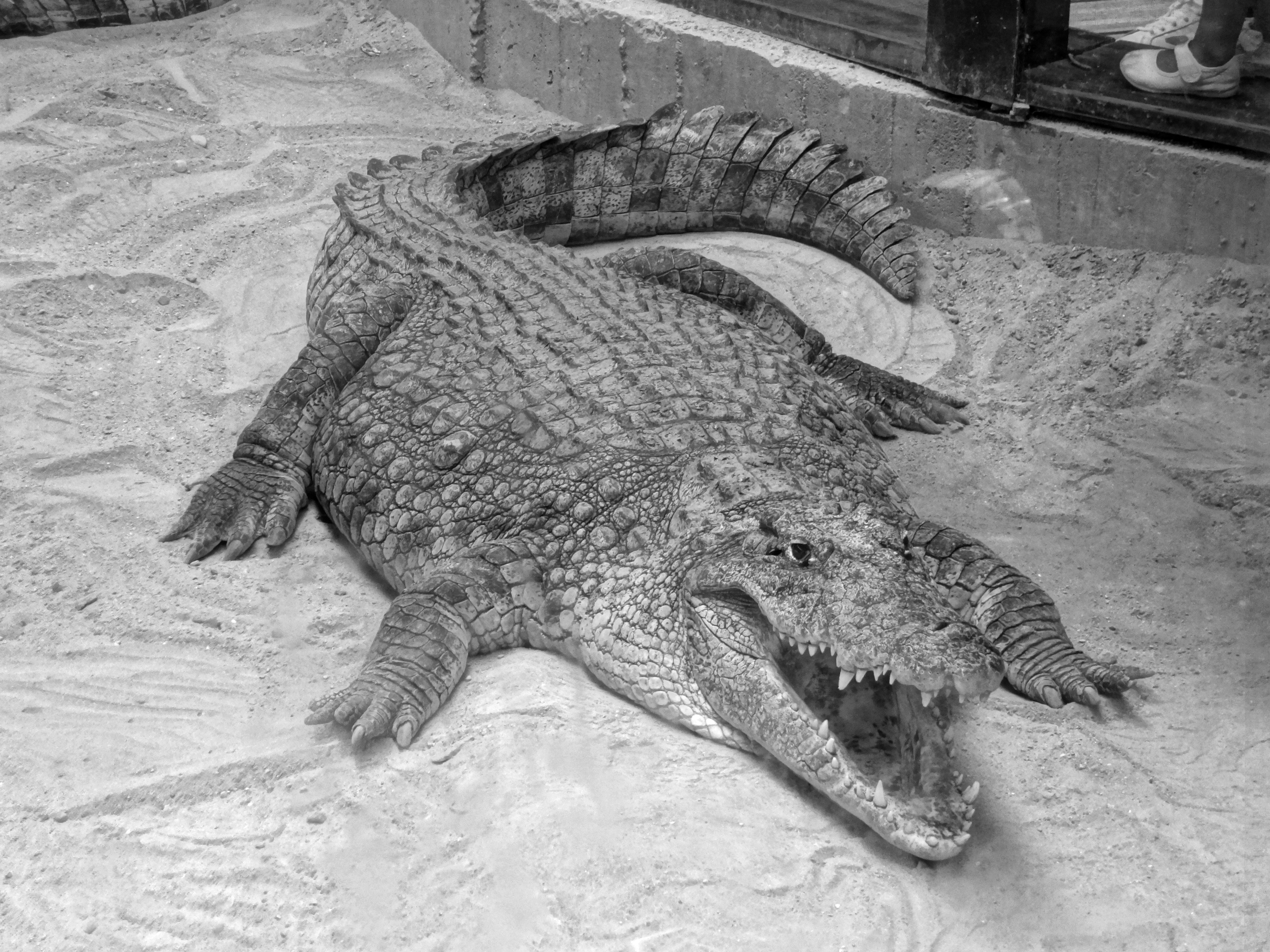 Faunia in Madrid, Spain